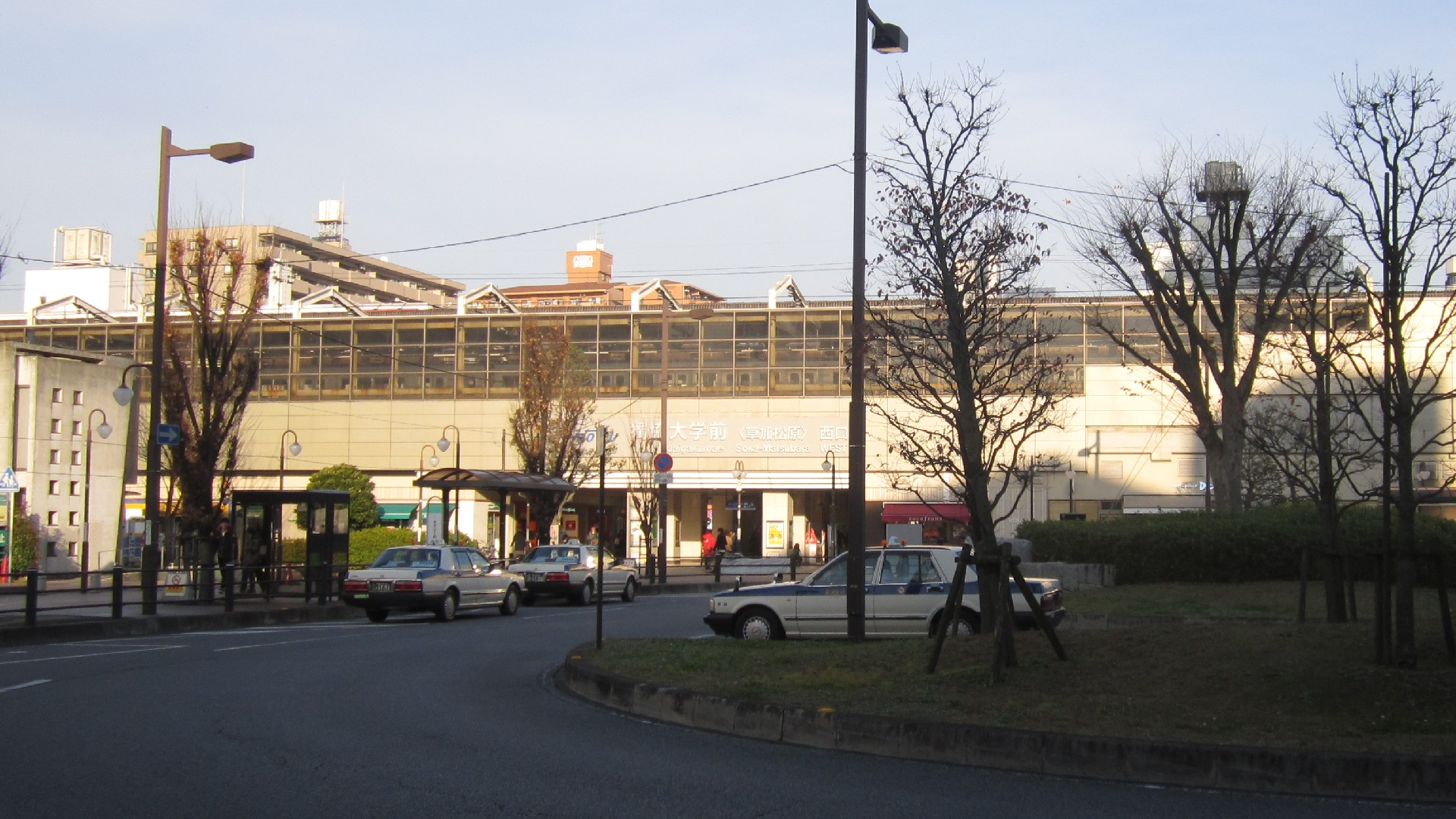 The west side of Dokkyodaigakumae Station in Saitama Prefecture, Japan